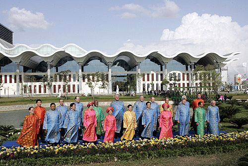 HANOI. APEC heads of state in traditional Vietnamese Ao Dai outfit.